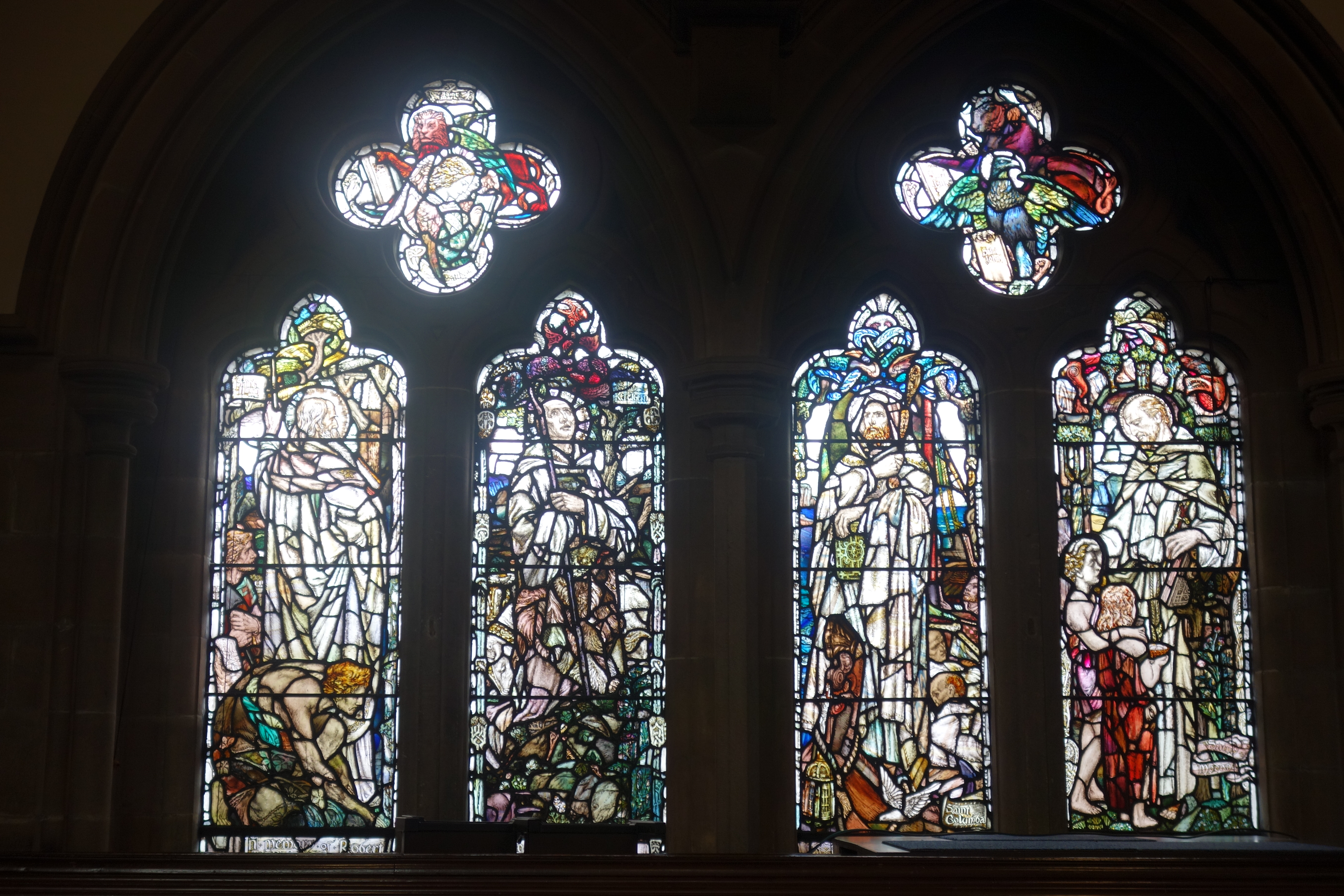 Stained glass windows in Bute Hall, University of Glasgow. Probably Robert Story Memorial Window, by Douglas Strachan, placed in the Bute Hall of Glasgow University on 21 Oct. 1909. Saints depicted on the windows, from left to right: Saint Ninian (=Saint Trynnian), Saint Kentigern (=Saint Mungo), Saint Columba, Saint Modan.